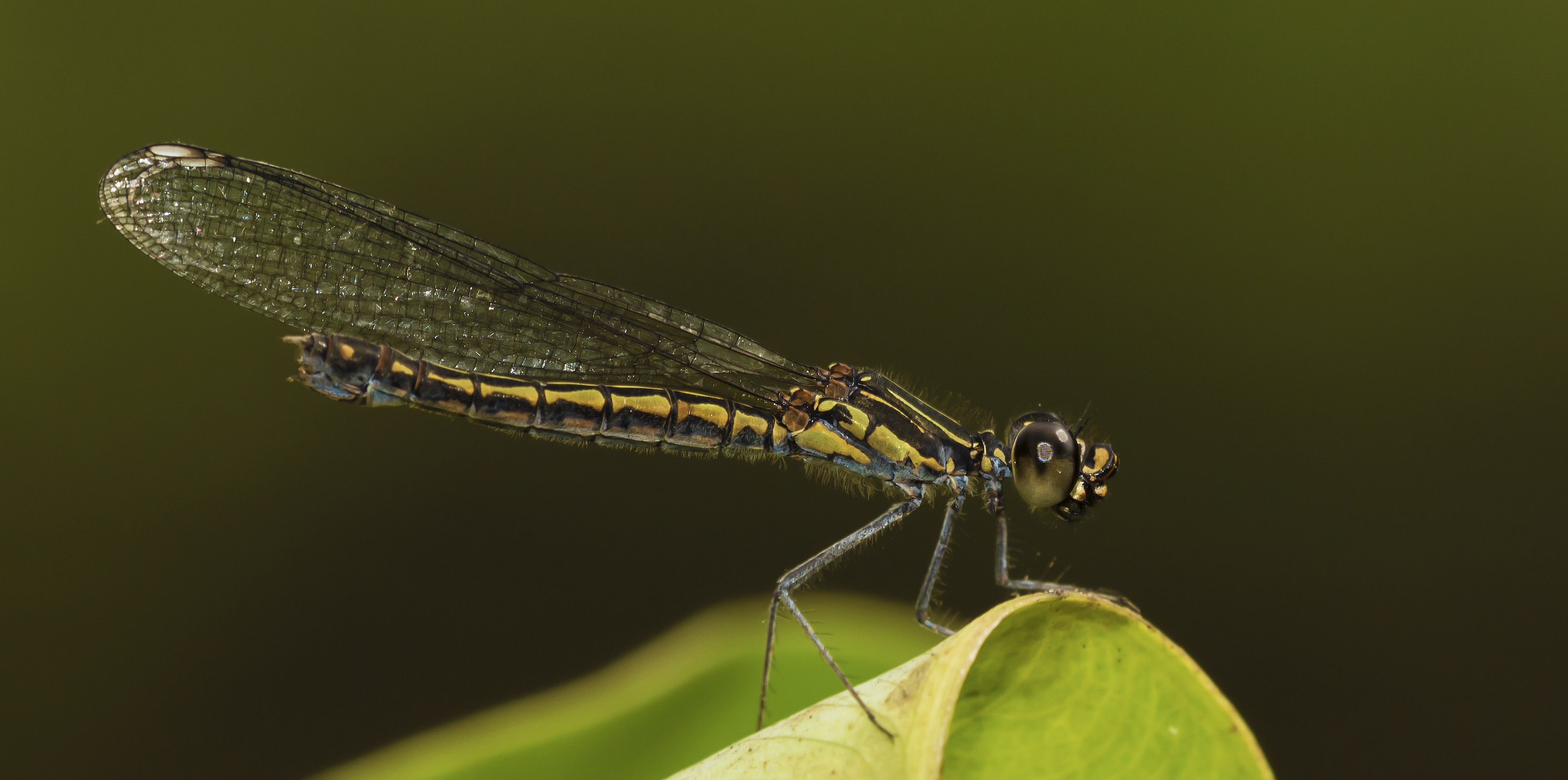 Libellago indica, Southern Heliodor, is a small black and yellow damselfly with black tipped transparent wing; confined to hill streams and rivers of forested landscapes. Frequently sits in emergent water plants and overhanging bushes. Their preferred home is along the banks of rivers.